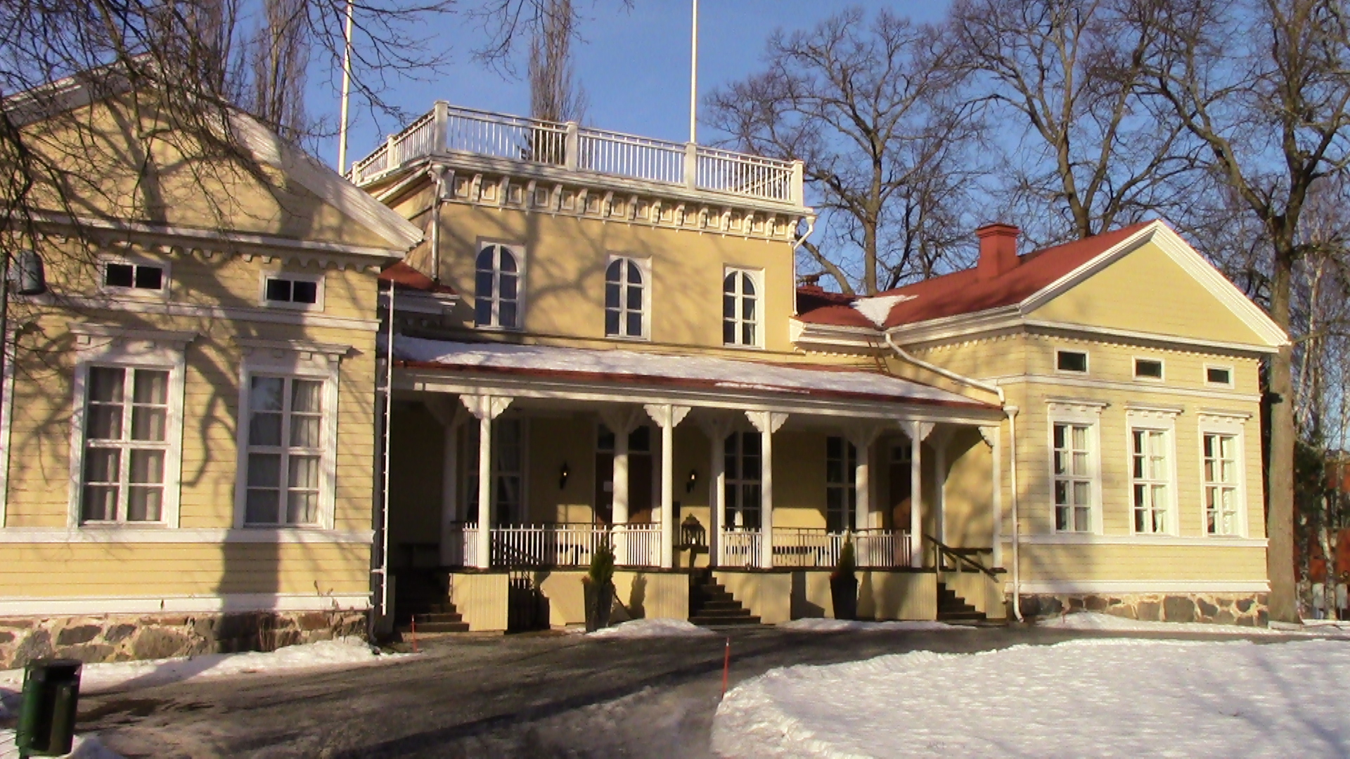 Villilä manor in Nakkila, Finland. The building's been used by hotel as a reception and restaurant building in nowadays.